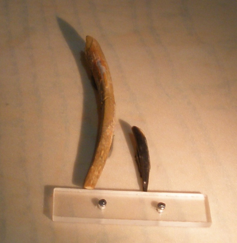 Took the photo at Museo di Storia Naturale di Verona